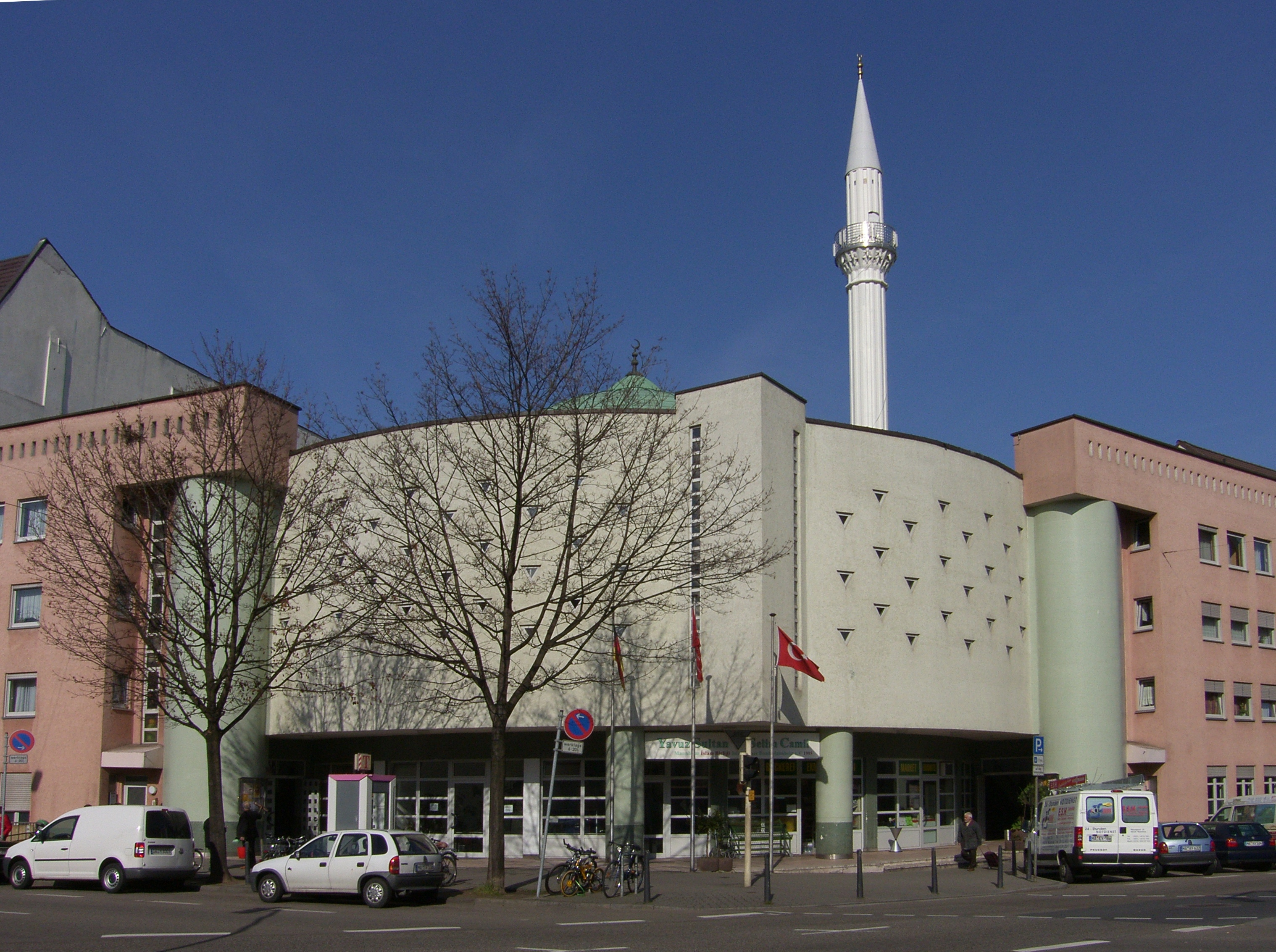 Yavuz Sultan Selim Mosque, Mannheim, Germany